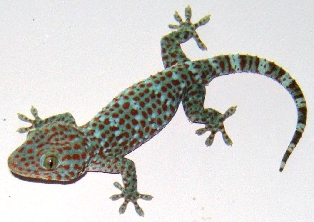 A Tokay gecko in Binh Thuan province, Vietnam